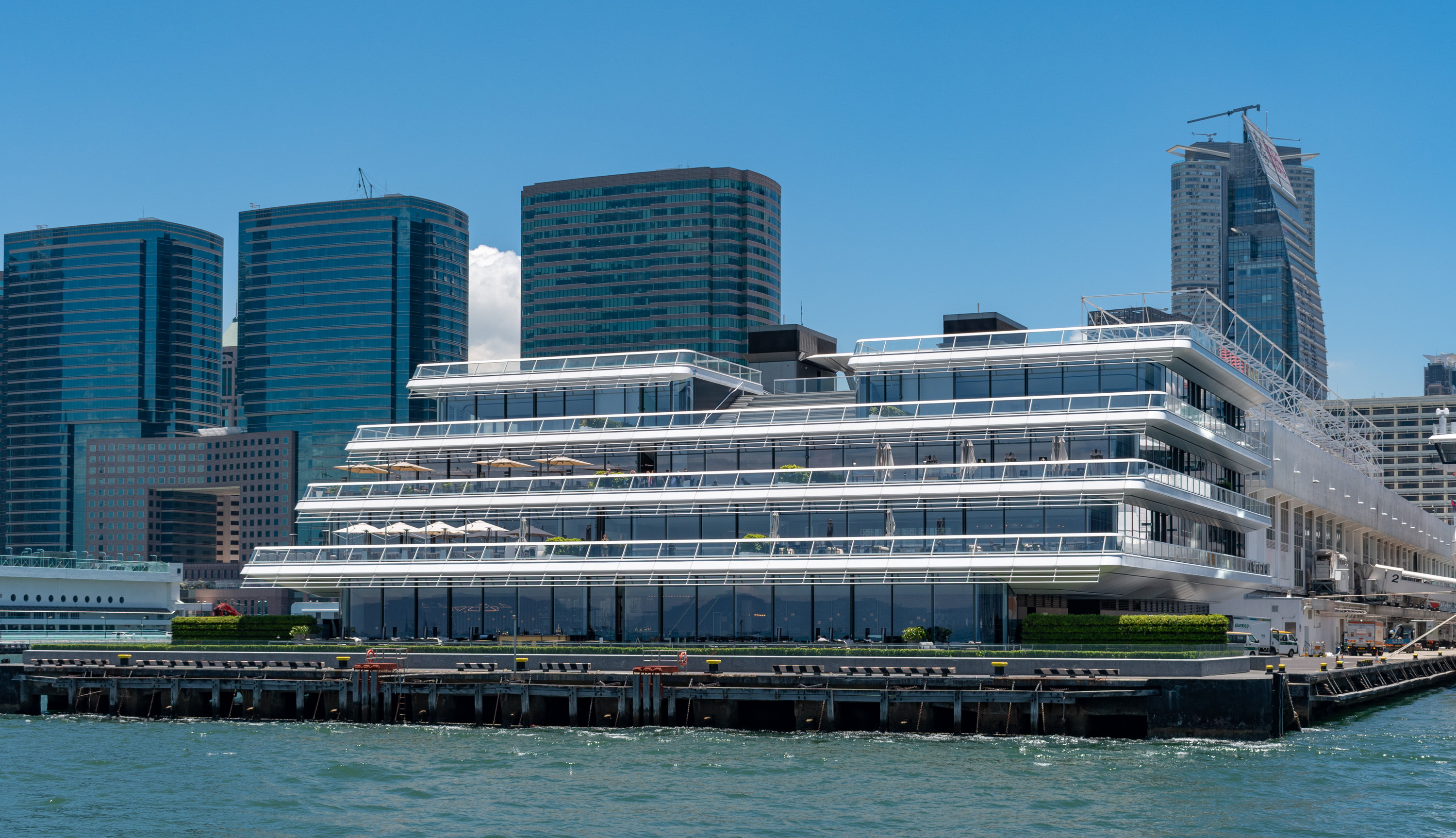 Ocean Terminal Extension